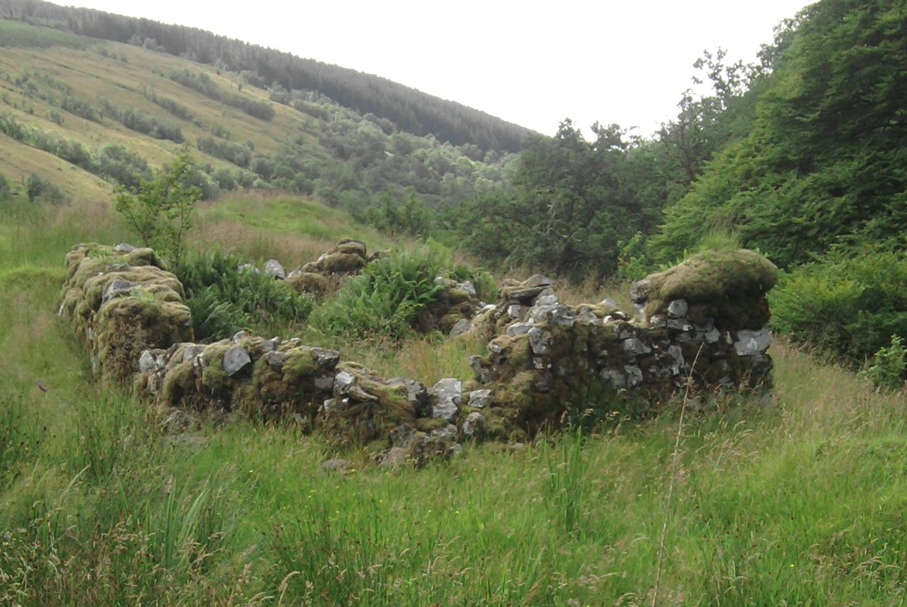 The remains of Rob Roy MacGregor's house Glen Shira c 1716 In 1716 John Campbell, 2nd Duke of Argyll also known as Red John of the Battles "Iain Ruaidh nan Cath" negotiated an amnesty and protection for Rob and granted him permission to build a house in upper Glen Shira for the surrendering up of weapons. "traditionally the story goes that Argyll only received a large cash of rusty old weapons". A sporran and dirk handle belonging to Rob Roy can still be seen at Inveraray Castle. There's also a mention of Rob Roy constructing a fank or fold for sheep or cattle in the Glen. Rob Roy probably only stayed here for a few years. Some time after the 1719 Jacobite Rebellion around 1720 Rob had moved to Monachyle Tuarach Loch Doine and some time before 1722 moved to Inverlochlarig Beag on the Braes of Balquhidder. Possibly constructed c 1716 to 1717.